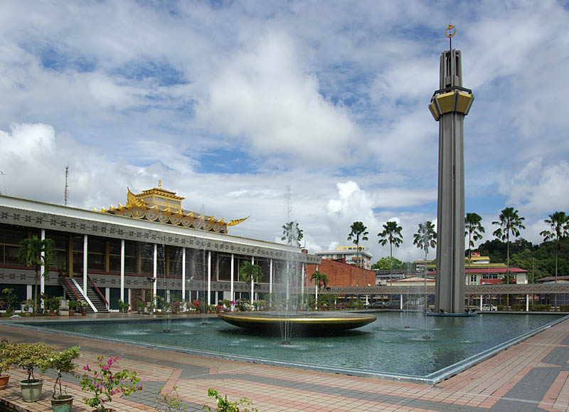 Lapau Iraja — Royal hall in Bandar Seri Begawan, Brunei.